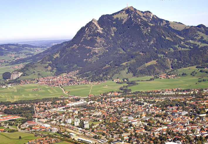 Sonthofen is the most southerly town of Germany.